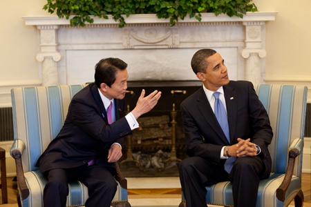 Japanese Prime Minister Taro Aso and Barack Obama in the Oval Office. Taro Aso became the first foreign leader to meet with the President in the Oval Office.